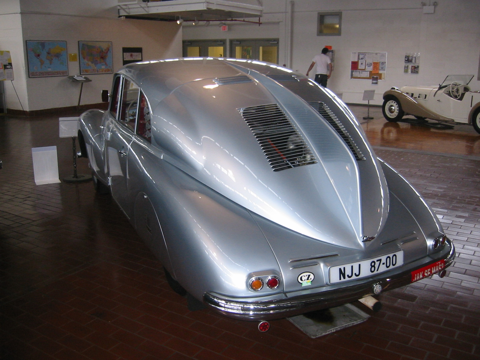 American Automobile Culture: Cars from the Lane Motor Museum Czech-made 1947 Tatra T-87 Saloon, showing the characteristic rear shark's fin and windowless rear engine cowling at the Lane Motor Museum in Nashville, Tennessee (USA) automobile, car, lane motor museum, museum, nashville, tennessee, usa, tatra. czech, unique, streamlined